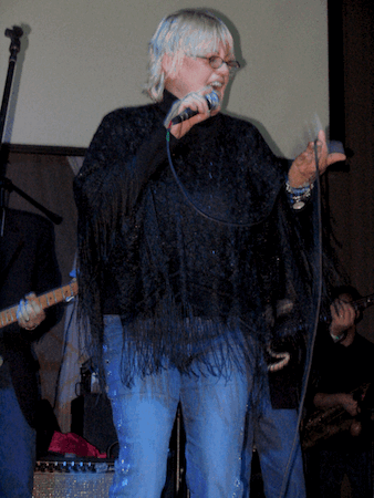 Bonnie Bramlett - Live in Concert (photo by Scott Dudelson)